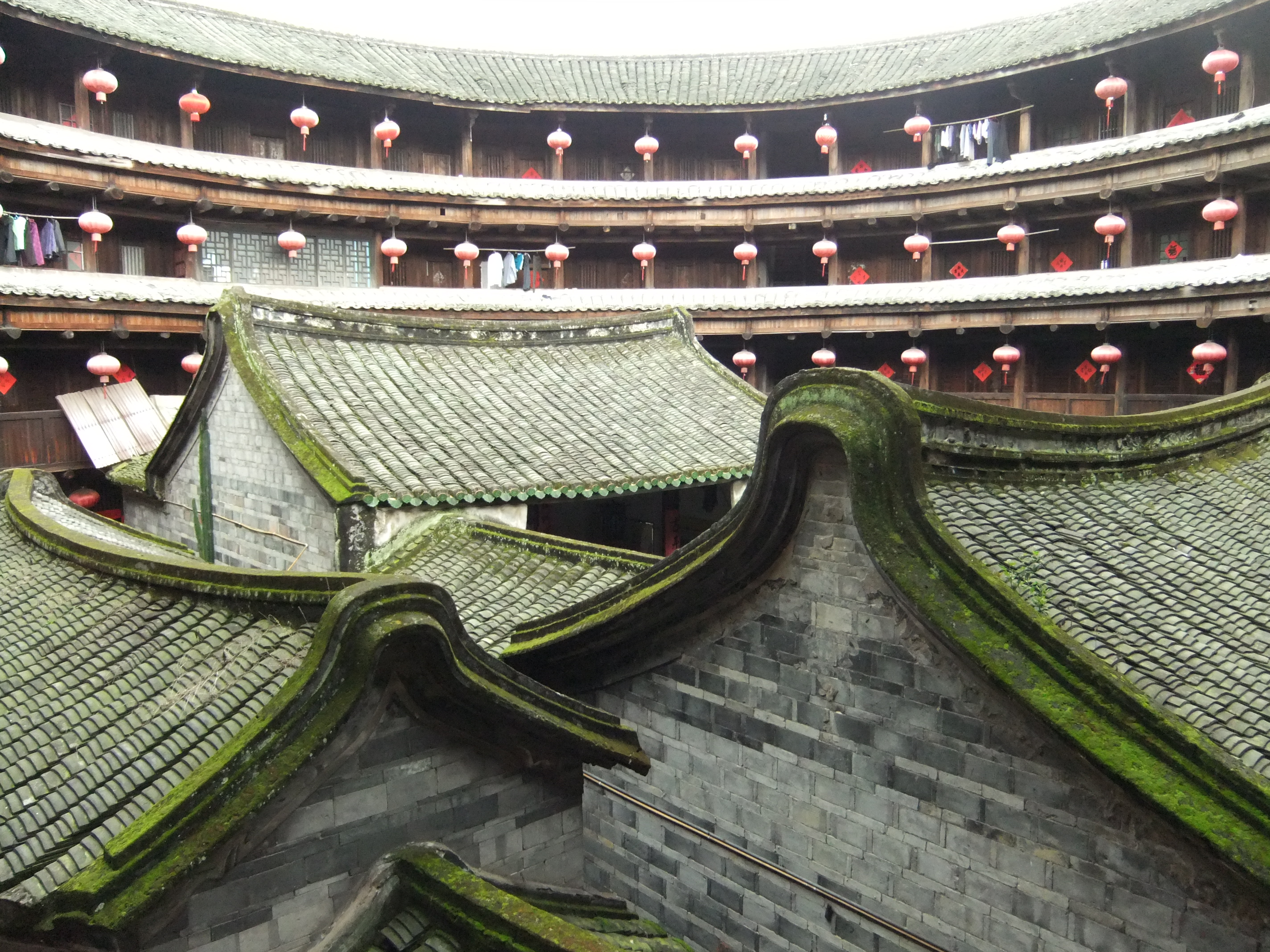 Yanxiang Lou is a large round tulou in Xinnan Village (Xinnancun), Hukeng Town, Yongding County, Fujian. There are many other tulous in Xinnancun, but Yanxiang Lou is the only one in the village listed as one of the sites of the World Heritage object "Fujian Tulou".